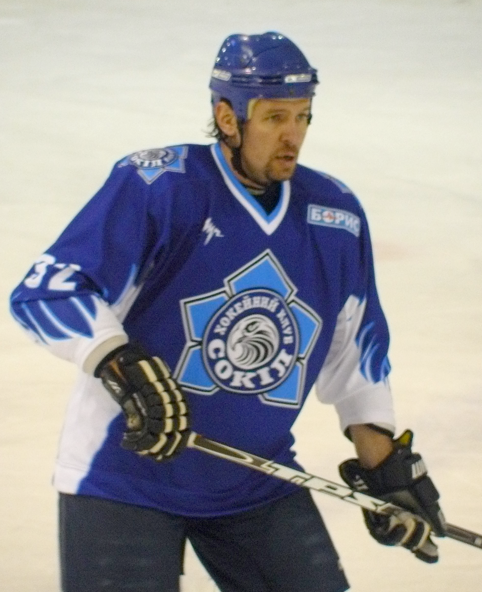 Defender Yuri Gunko #32 of the Sokil Kyiv during the Belarus Extraliga game against the Shakhter Soligorsk on January 4, 2011 at the Terminal Arena in Brovary, Ukraine. Sokil Kyiv won the game 3:2.